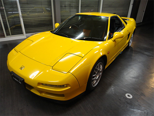 Yellow